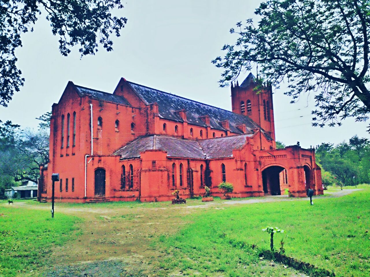 This is one of the most beautiful churches in Lucknow , but can be called as a deserted one, at the moment.Though you can find a couple of small congregations happening over here, but it is non operational. If you want peace and solitude, this could be the right church to visit in Lucknow. Located in the Cantt. (Cantonment) area of Lucknow, the All Saints Garrison Church is high on the list of the spookiest places I have ever visited. The mutiny of 1857 ruined the British settlement of Lucknow, which had grown up around the British Residency. Damage from heavy shelling by the rebels forced the British to abandon the Residency and the new settlement was what is known as Cantt. today. Since British officers and families were living in the Cantonment area, a large number of Churches were built to serve them, and most of them survive to this day. The All Saints Garrison Church was designed by James Ransome, Consulting Architect to the Government of India, around 1908. Since Ransome left India for England shortly after, the design was executed by his successors, John Begg and Frank Lishman. Elements of the design were borrowed from Magdalene College, Oxford, and sketches and designs Ransome found in an architecture magazine. The Church was designed in a style that was considered “modern” for the time. However, Ransome’s original design was much more grand (and probably expensive) than what was finally executed by Begg and Lishman. Begg and Lishman simplified the side walls, which Ransome’s original design would have made very expensive to construct. They also lowered the height of the bell tower. But inspite of all their simplifications, the All Saints Garrison Church appears striking and magnificent today. The Church was built between 1911 and 1913, and the cost of construction was Rs. 90,000.